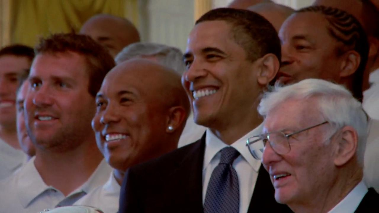 President Barack Obama poses with the Pittsburgh Steelers during their visit to the White House as Super Bowl XLIII champions. Screenshot taken from a White House video. (Left to right: Ben Roethlisberger, Hines Ward, President Obama, and Dan Rooney.)